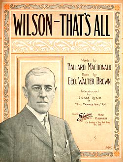 "Wilson-- That's All". Sheet music cover for music promoting US presidential campaign of Woodrow Wilson in 1912.